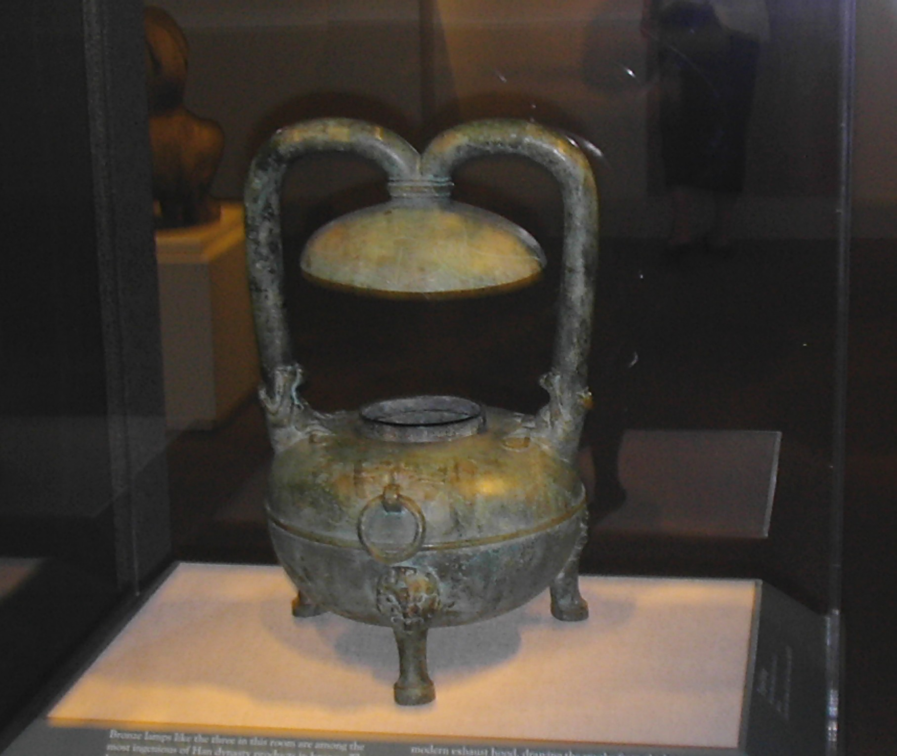 A Chinese Western Han Dynasty bronze tripod lamp, 1st century BC, Freer Gallery of Art, Washington D.C., United States.